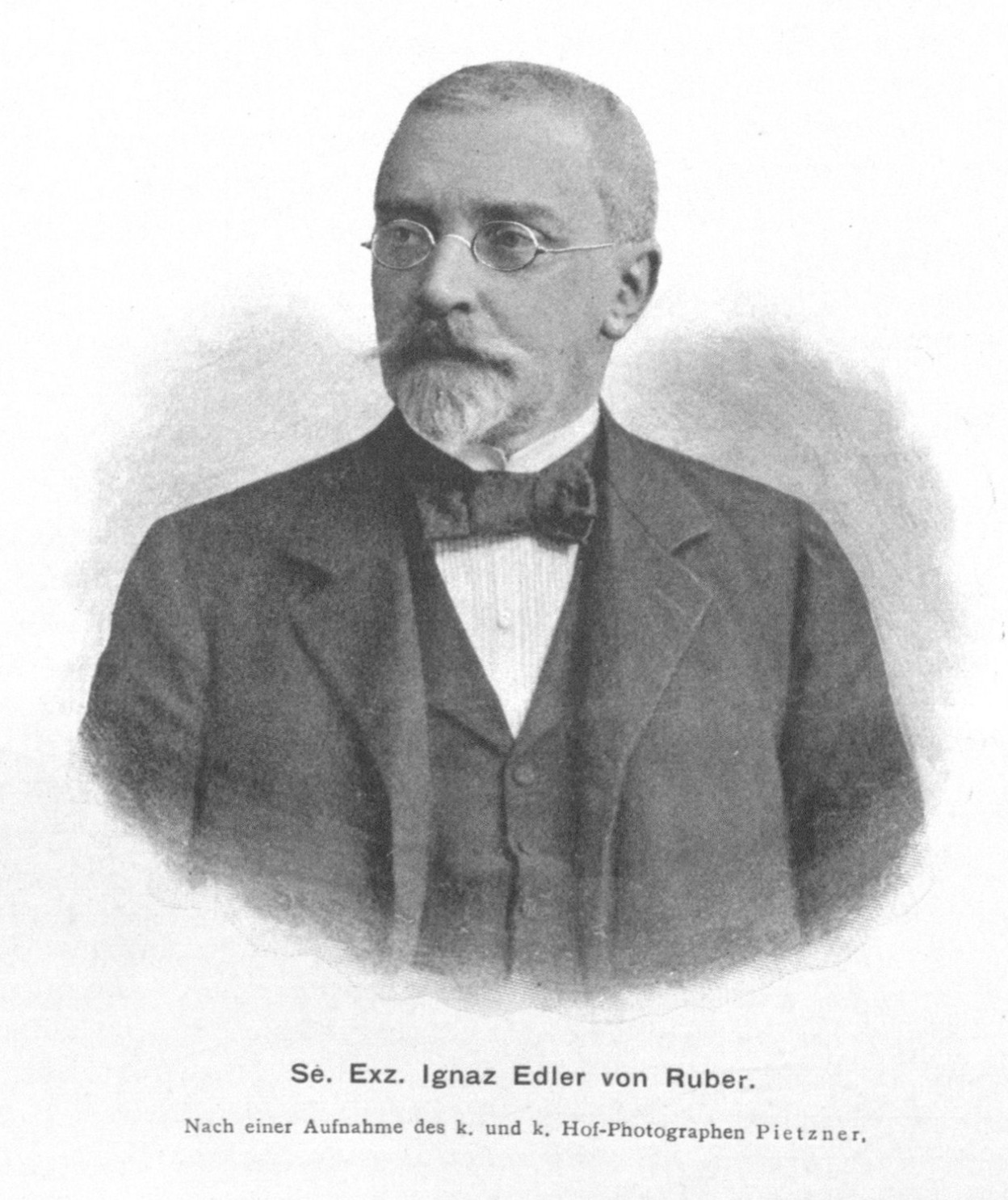 Portrait of Ignaz von Ruber (1845-1933), Austrian lawyer and politician.